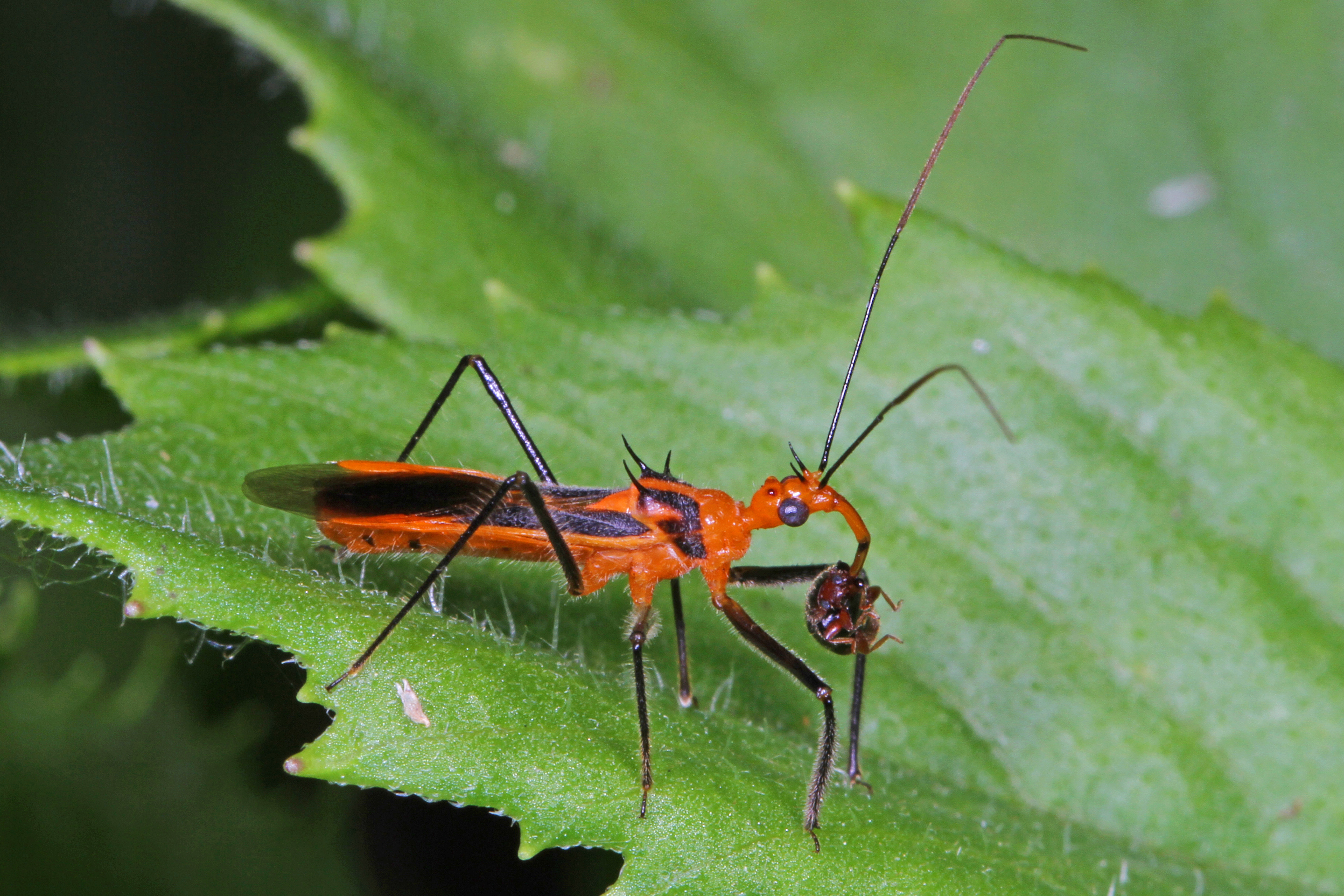 Red Bull Assassin Bug - Repipta taurus, Sapelo Island, Georgia.